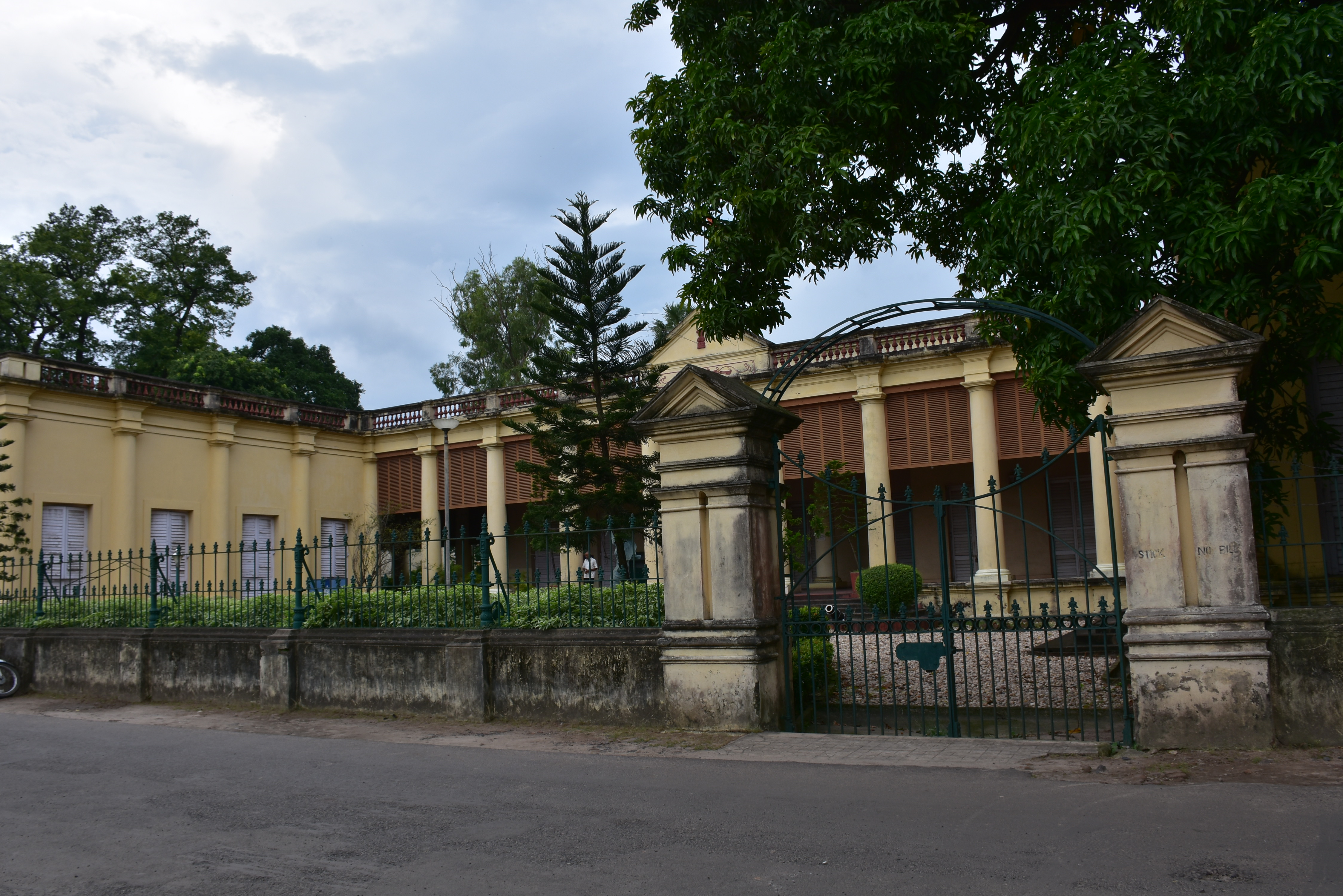 Dupleix Palace (Institute de Chandan Nagar)